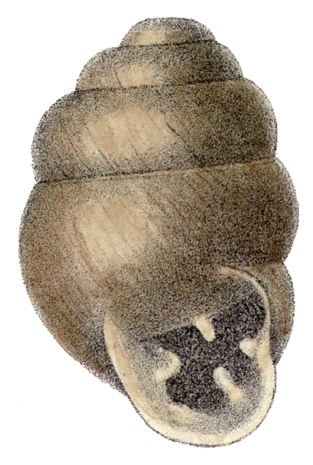 Drawing of the shell of Vertigo moulinsiana